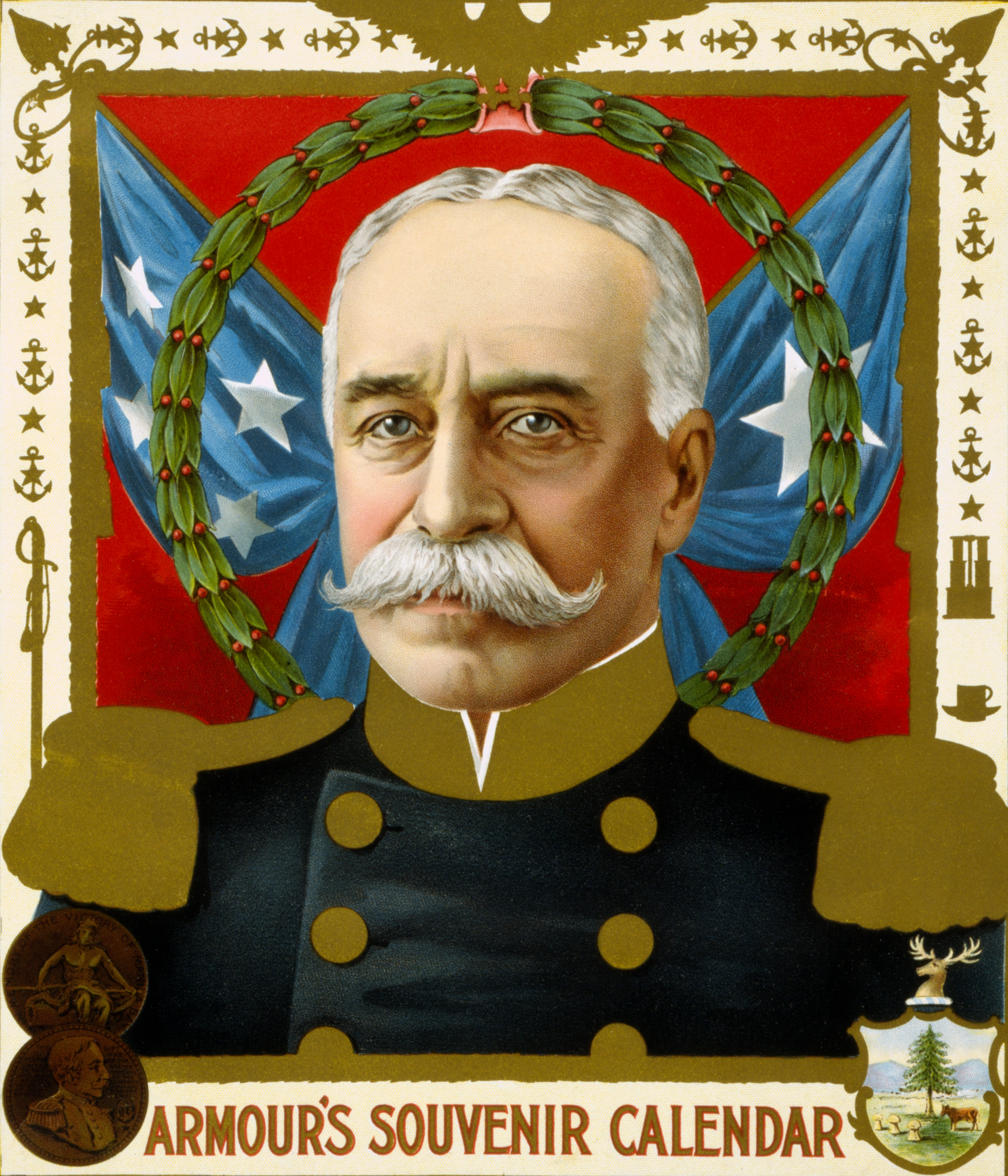 Chromolithograph cover of a souvenir calendar with picture of US Navy Admiral George Dewey.